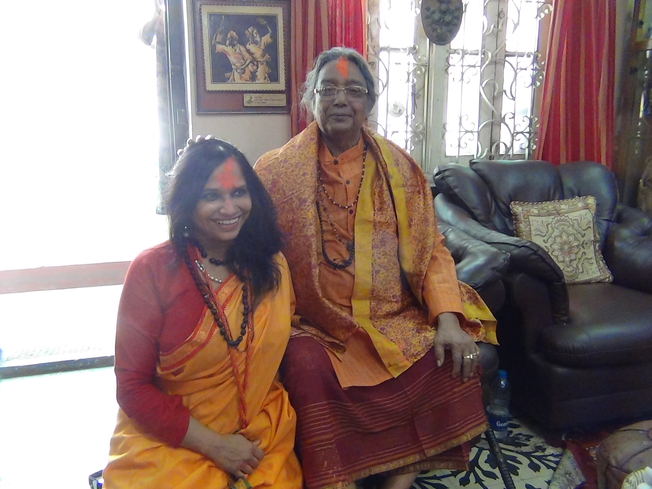 Papia Das Baul and her baul guru Pandit Baul Samrat Purna Das Baul